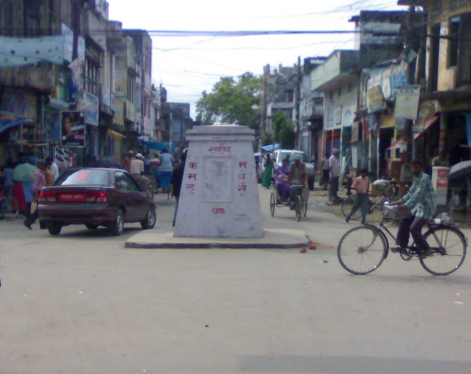 This place used to have the statue of King Tribhuvan. It was destroyed during the riot in Nepalgunj.